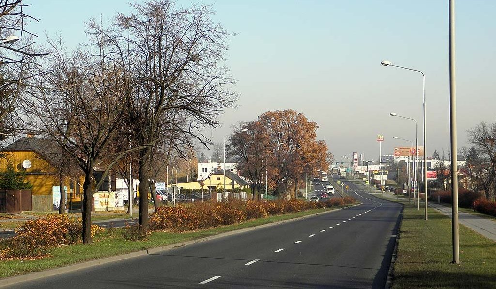 Czarnieckiego Street in Radom, Poland